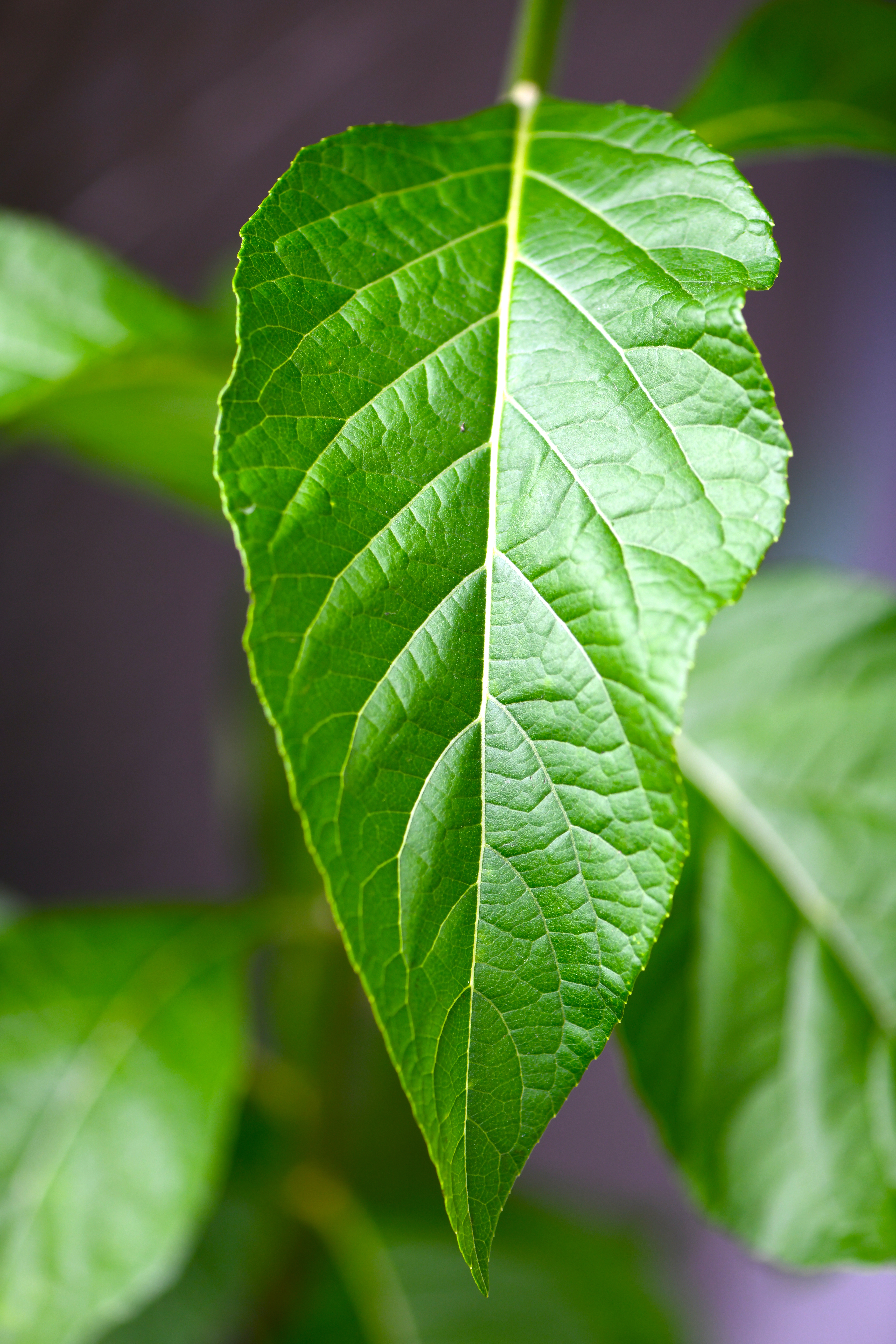 Bitterleaf หนานเฉาเหว่ย From Thailand. Herbal for Life.